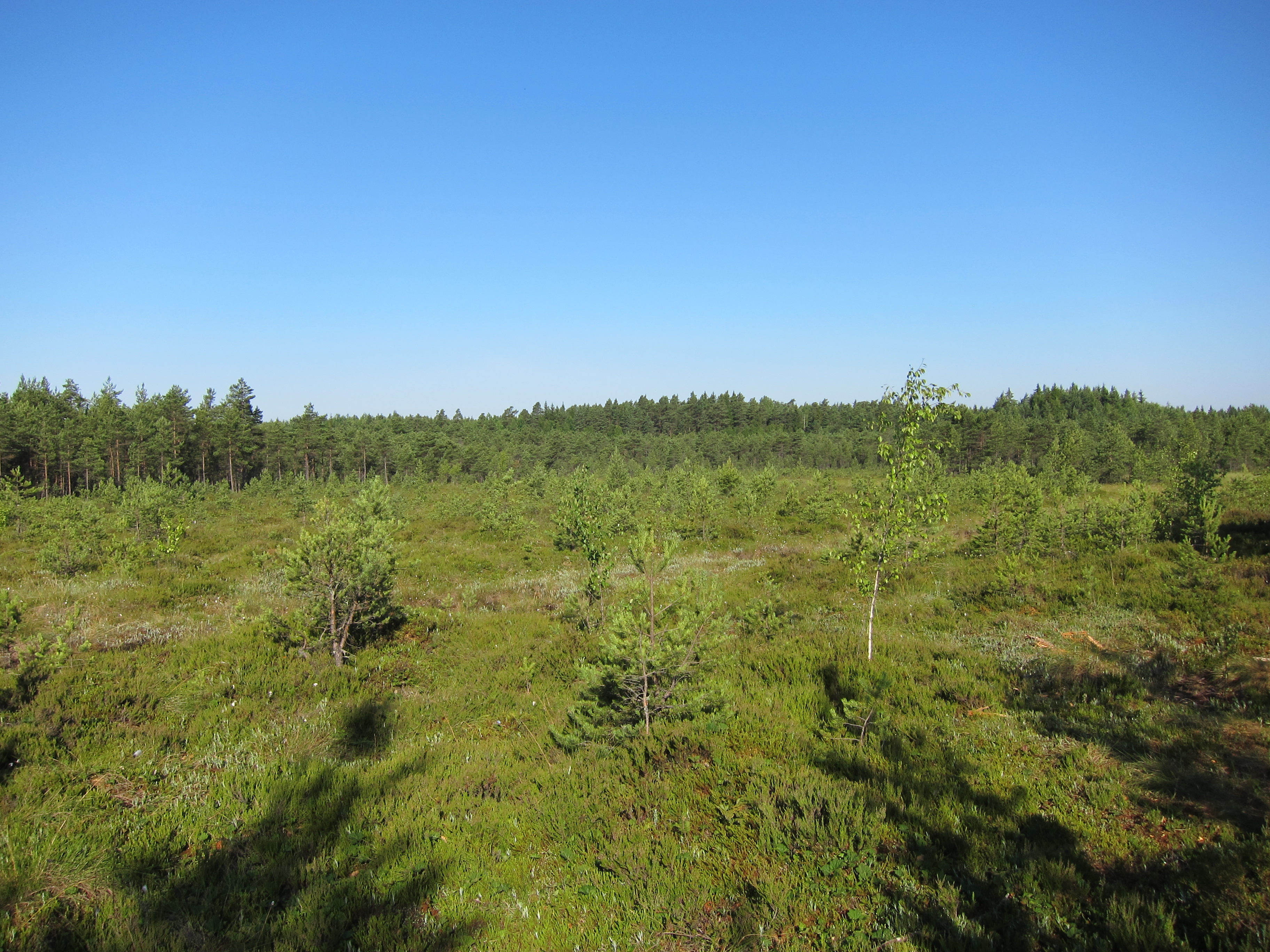 Pomponrahka became protected under the Nature Conservation Act in 1983 and it is part of a national mire protection programme. The mire complex, approximately 70 hectares in area, consists of the Isosuo-bog located further North, and Pomponrahka-bog further south. Pomponrahka is located in the south-west of Finland, city of Turku.